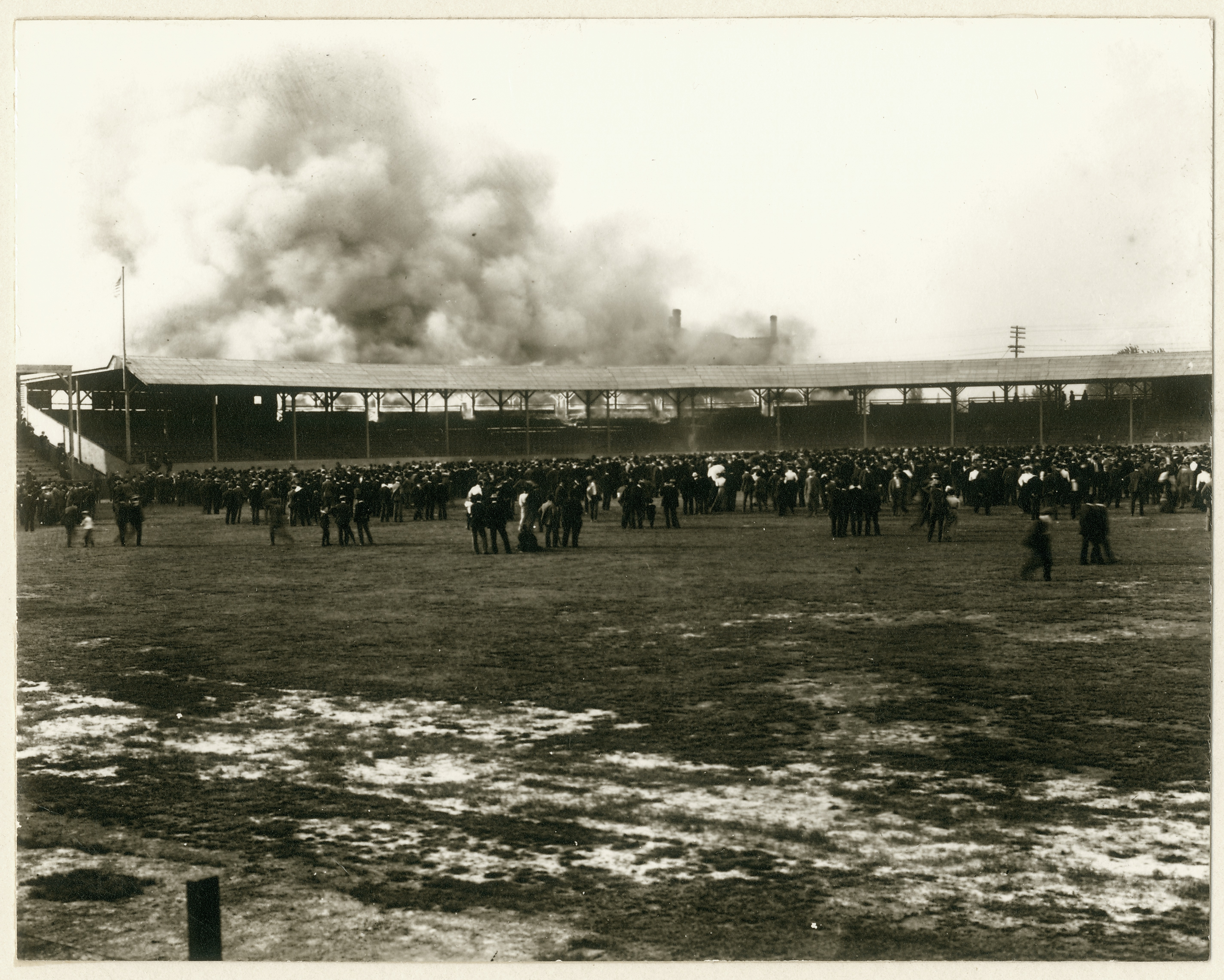 Horizontal photograph showing billowing smoke and fire near the rear of the grandstand of a baseball stadium. A crowd of spectators watches from the playing field. Title: Fire in the grandstand at League Park (Robison Field), Vandeventer Avenue and Natural Bridge Road, 4 May 1901.